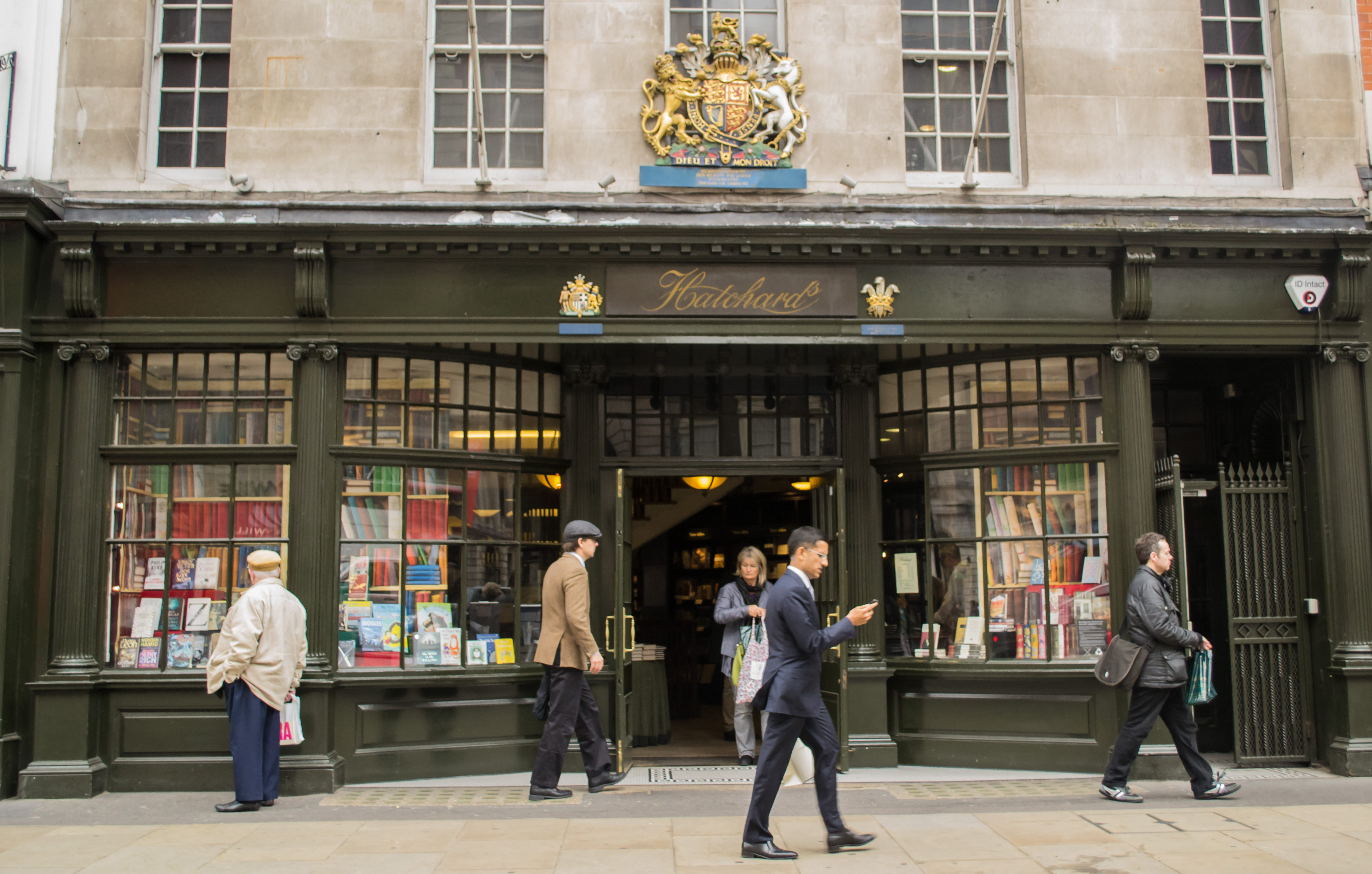 My visit to this iconic place in UK and Europe.